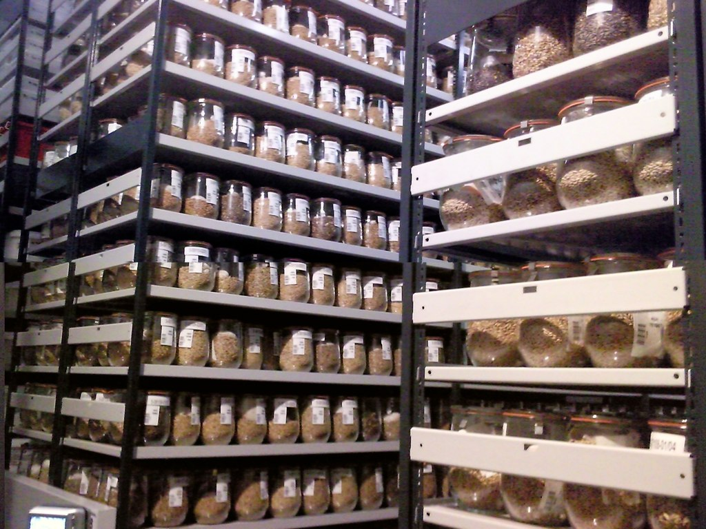 Barley (Hordeum vulgare L.) in the cold storage at IPK Gatersleben in Germany